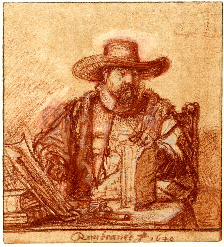 Portrait of Cornelis Claesz Anslo